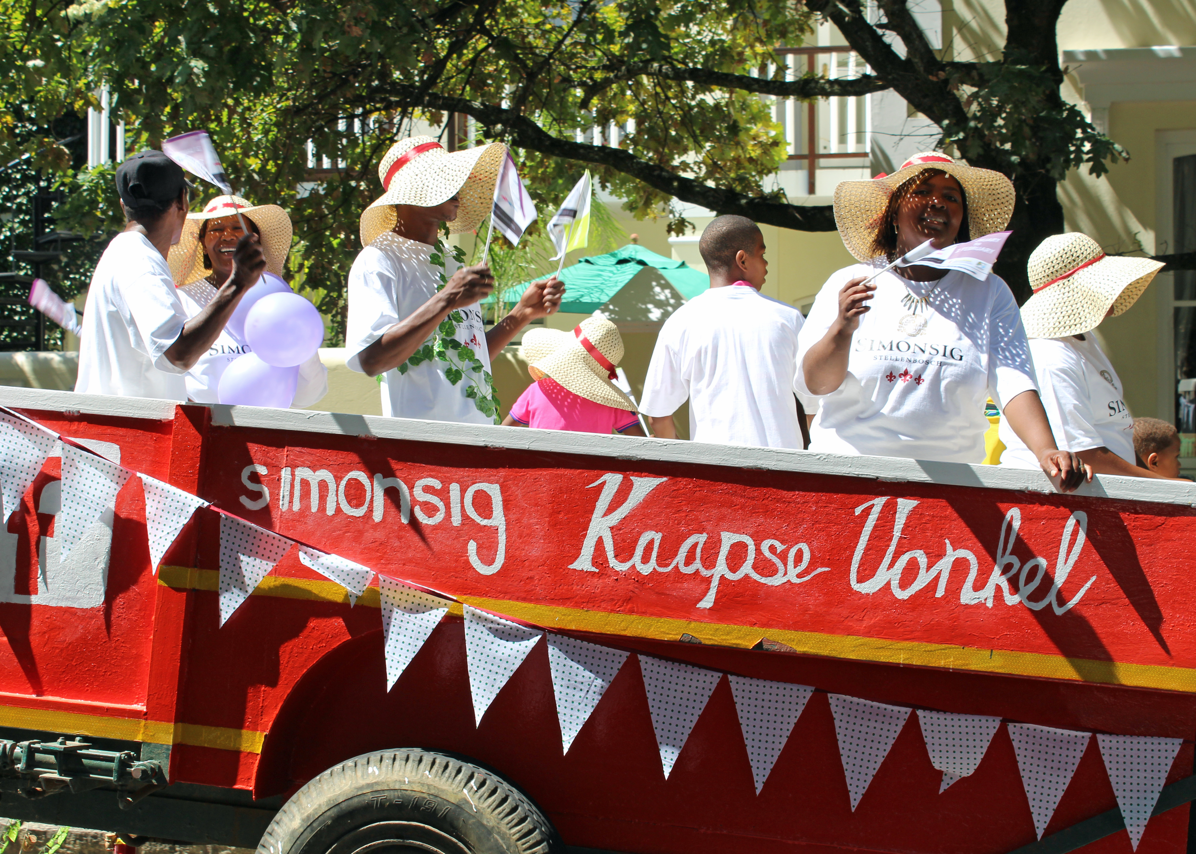 Stellenbosch Harvest Parade, 25 January 2014 (this photo was taken in Dorp Street)